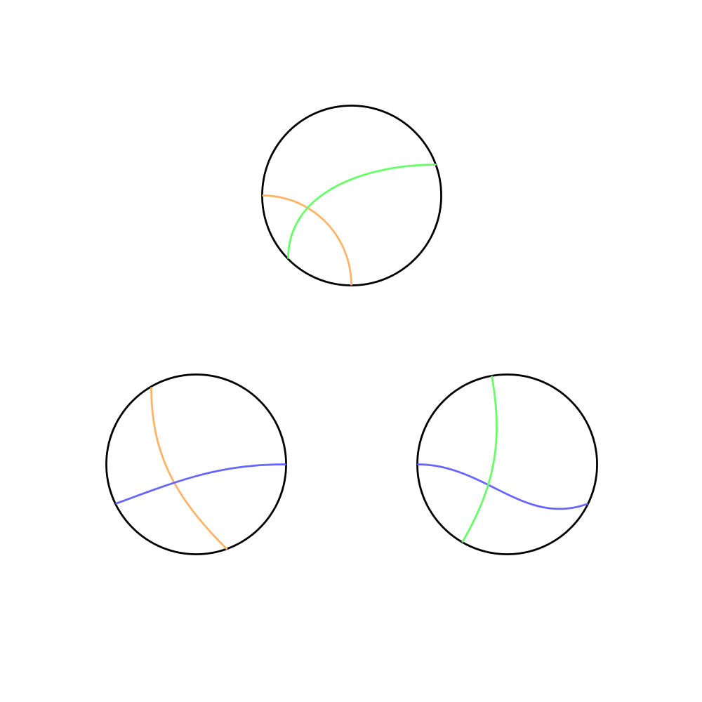 A diagram of graph refinement